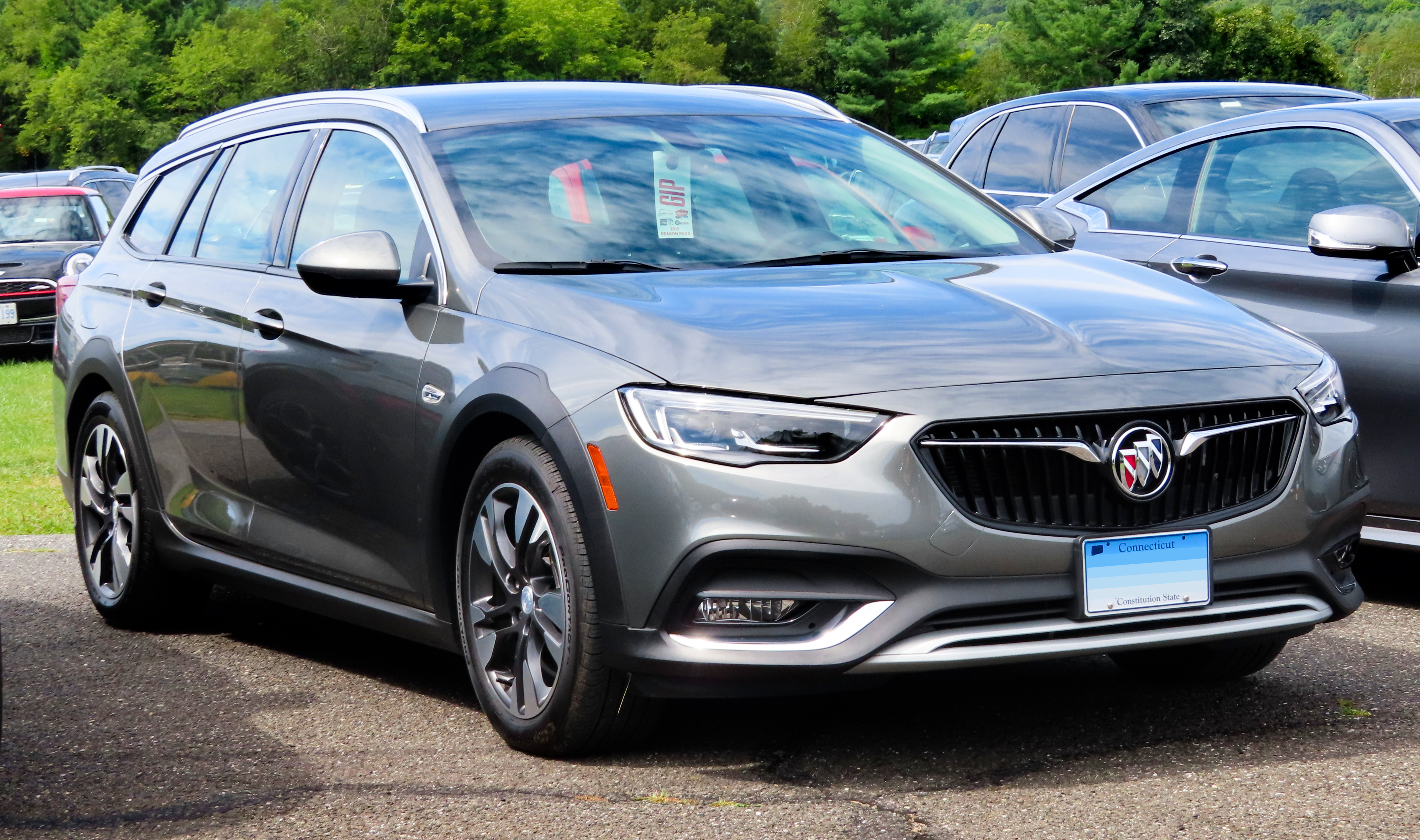 A 2018 Buick Regal TourX photographed during the 2019 Lime Rock Concours d'Elegance, at Lime Rock Park, Lakeville, Connecticut, USA